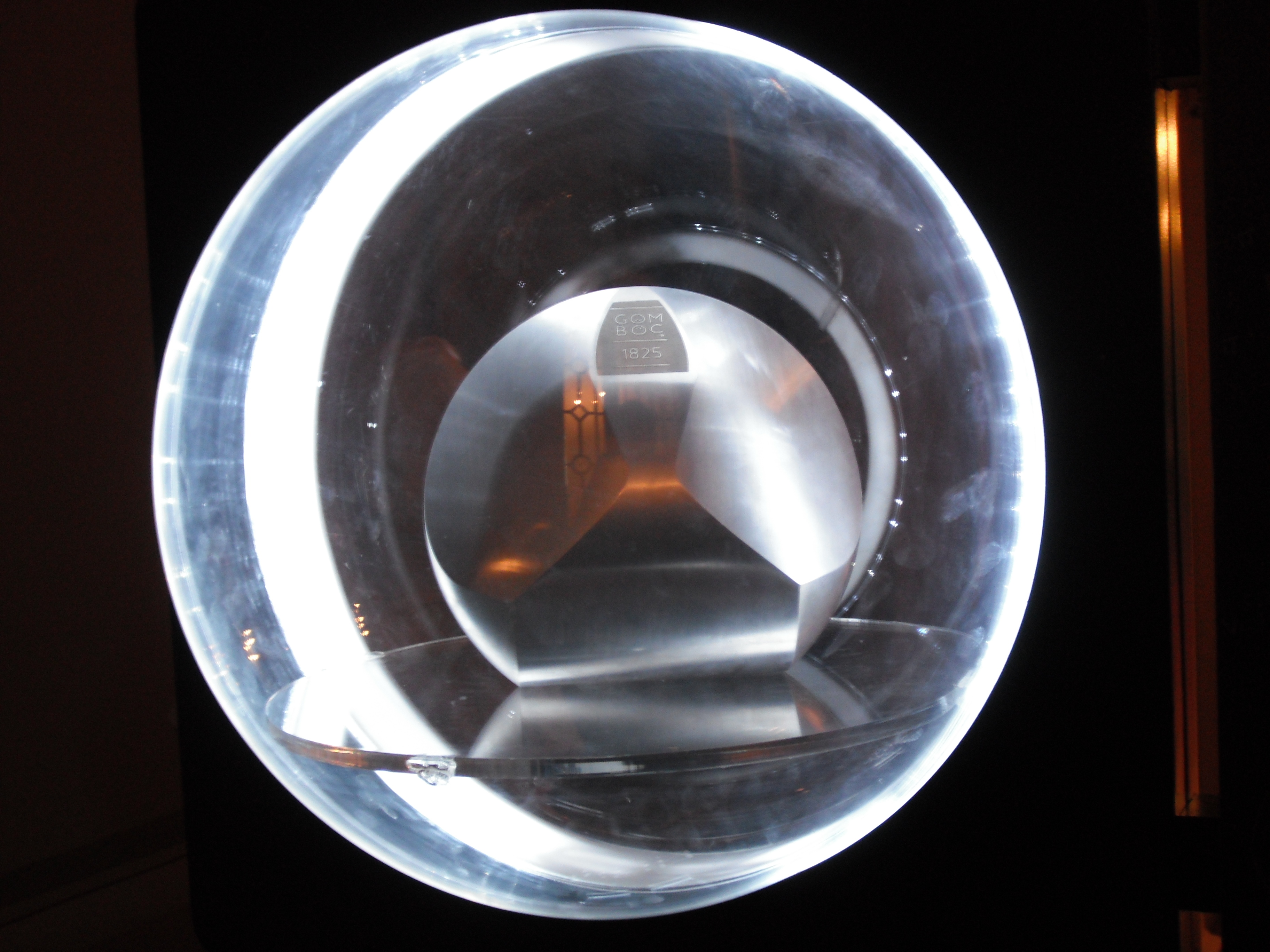 The so-called Gömböc (Nr. 1825), designed by Gábor Domokos and Péter Várkonyi, is the first known homogenous object with one stable and one unstable equilibrium point. Picture made at the Presidential Office at the HAS.